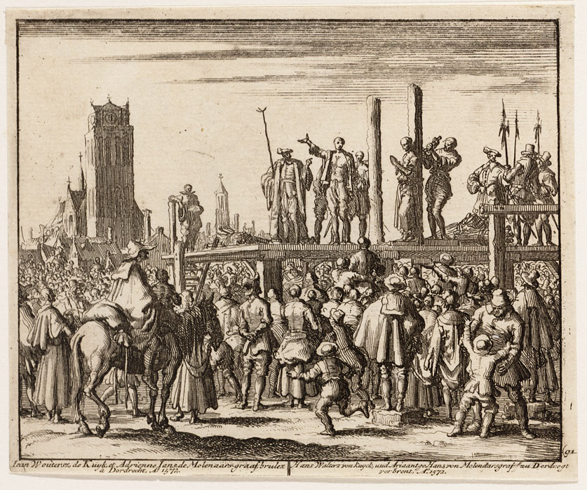 Execution of Jan Woutersz van Kuyk and Adriaentje Jans of Molenaarsgraaf, Dordrecht, 1572. Jan Woutersz van Cuyck is on the left baring his chest to show the marks of his torture and proclaiming he speaks no evil, just before he was bound to the stake. In his hand he is holding a piece of wood which had been shoved in his mouth to keep him from speaking. On the right Adriaentgen Jans van Molenaarsgraaf is being strangled at the stake. Story from the Martyr's Mirror